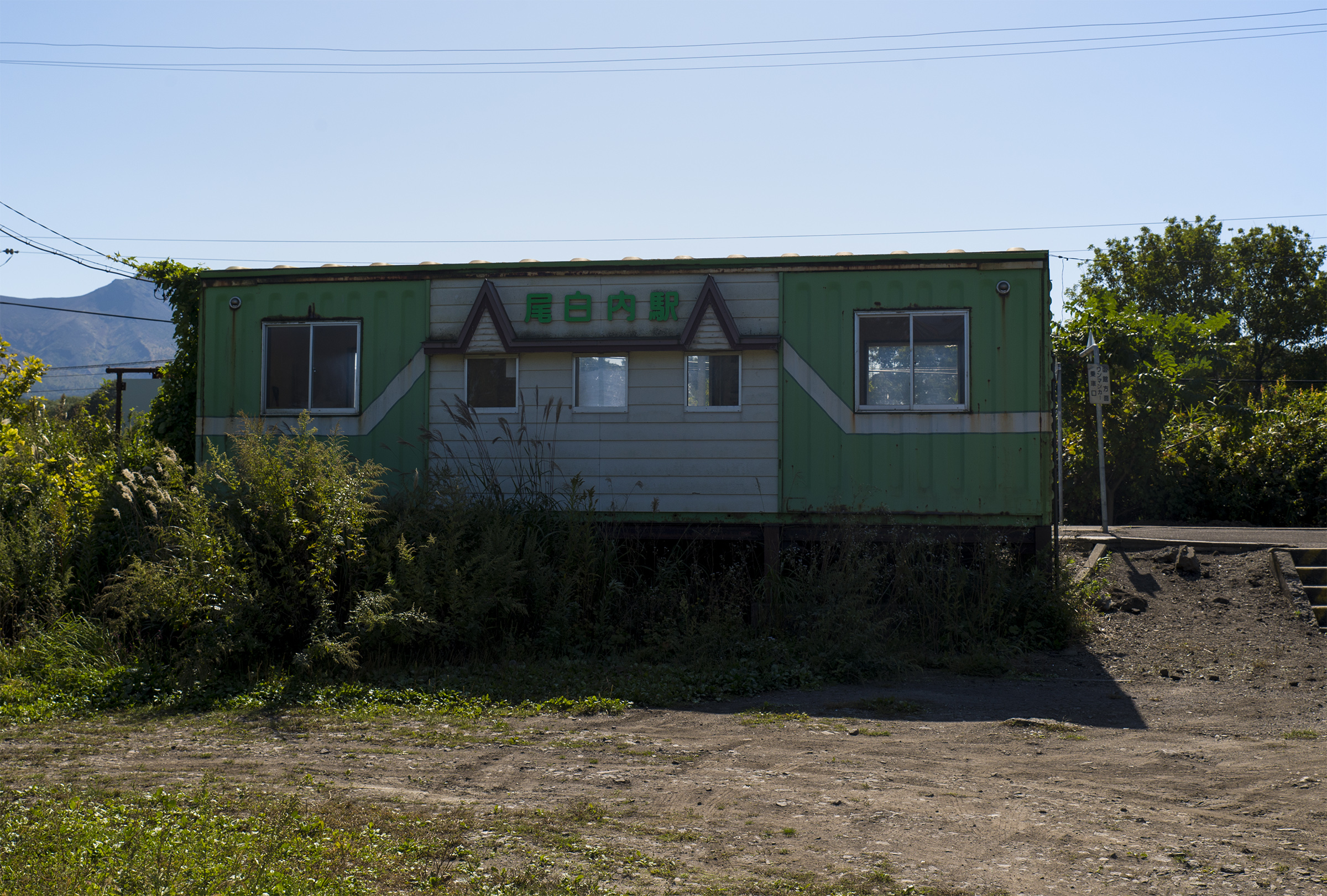 Oshironai Station on the JR Hokkaido hakodate Main Line